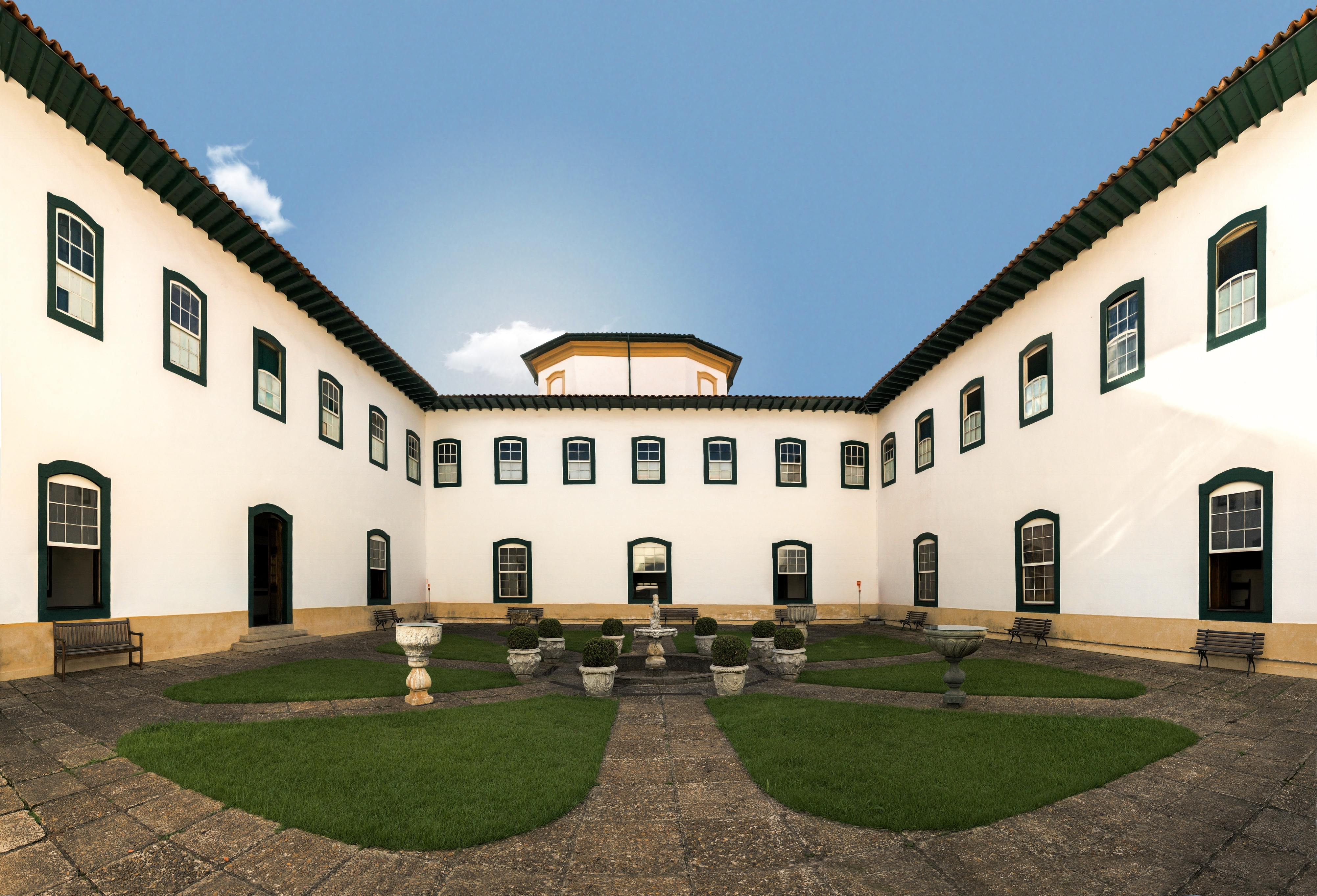 São Paulo Museum of Sacred Art